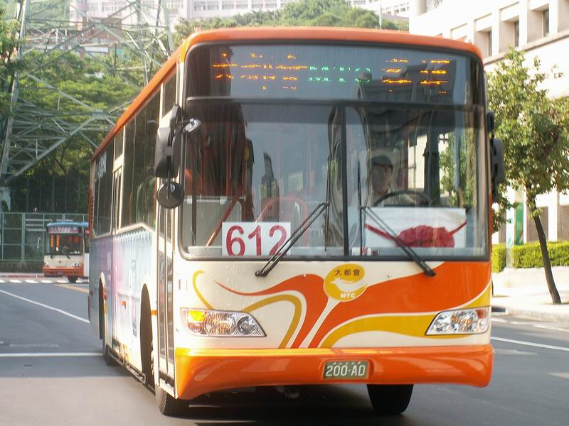 Metropolitan Transport Corporation supported route 612 when South East Bus protested (200-AD).